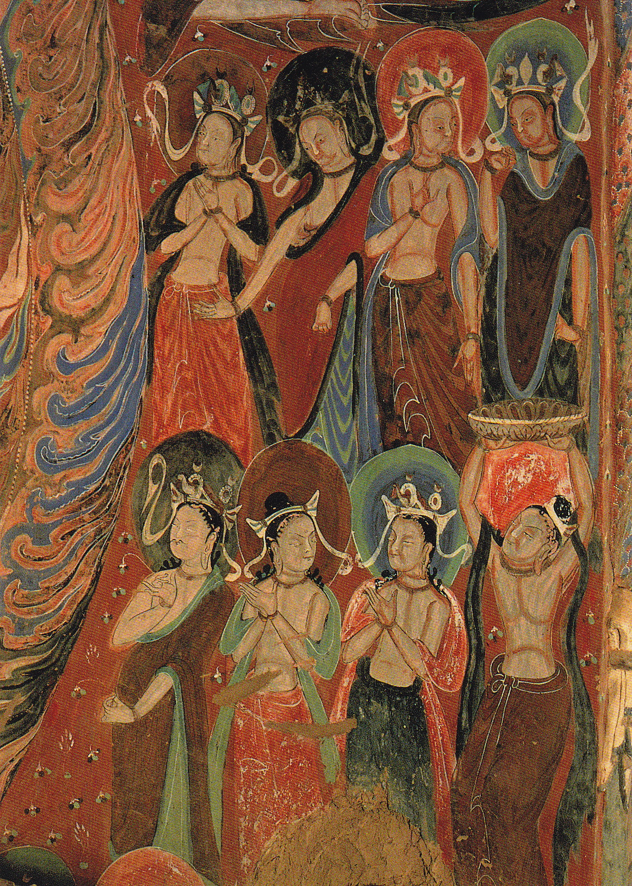 This is cave mural of Worshiping Bodhisattva